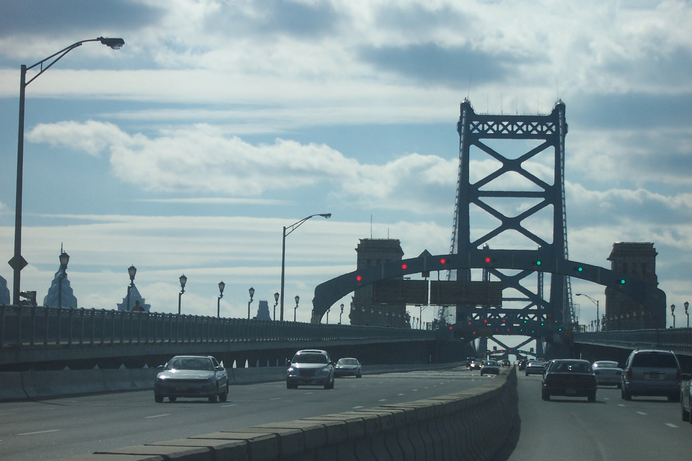 Benjamin Franklin Bridge, Philadelphia, inbound to city from New Jersey.